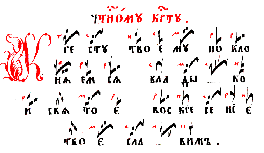 An example of znamennoe singing notation. From a book 'Scope of znamennoe singing' (Круг церковнаго древняго знаменнаго пения в шести частях), edited and published by A.I. Morozov, 1884. Could be found at